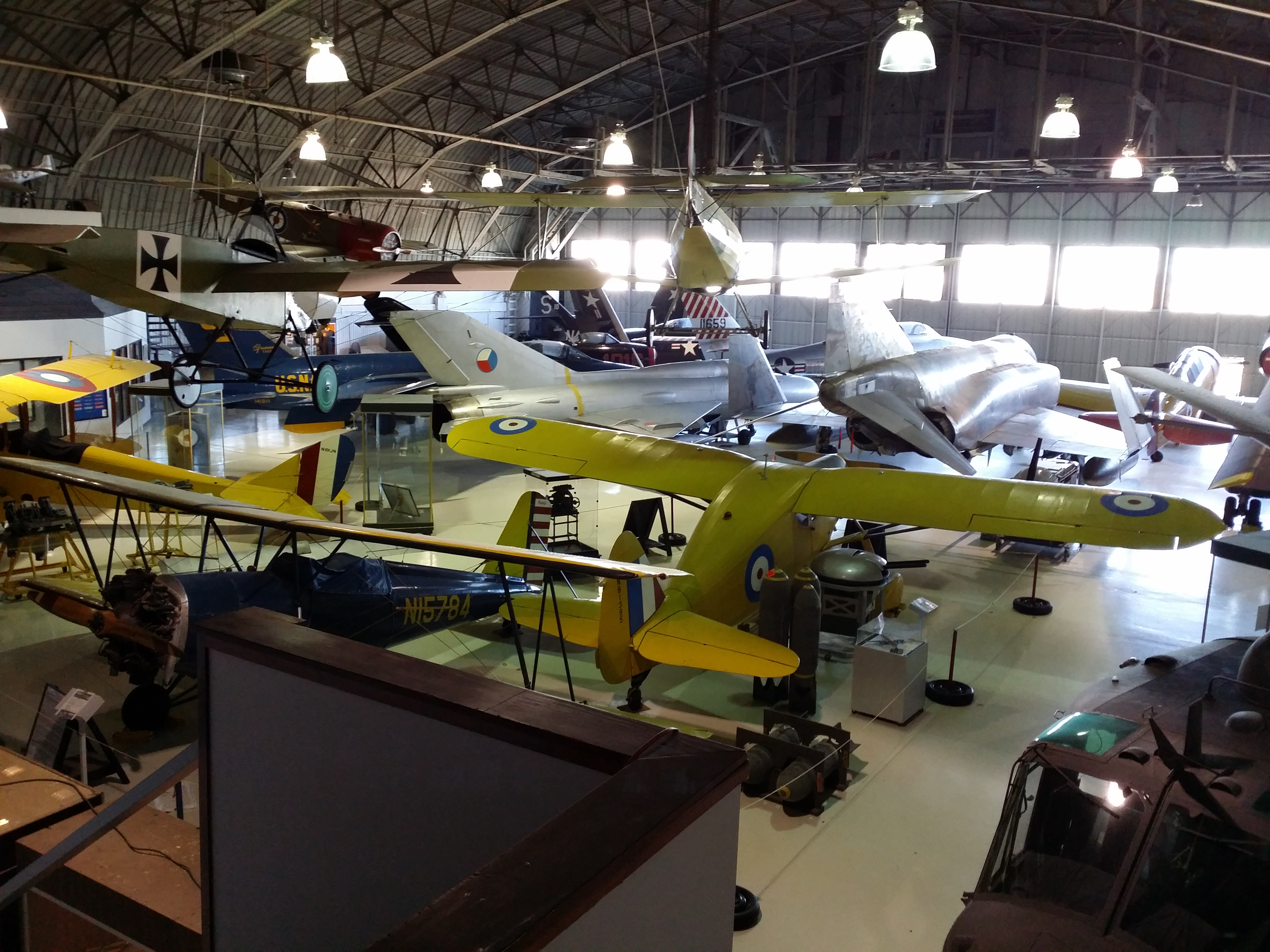 Williamsport, KS, USA